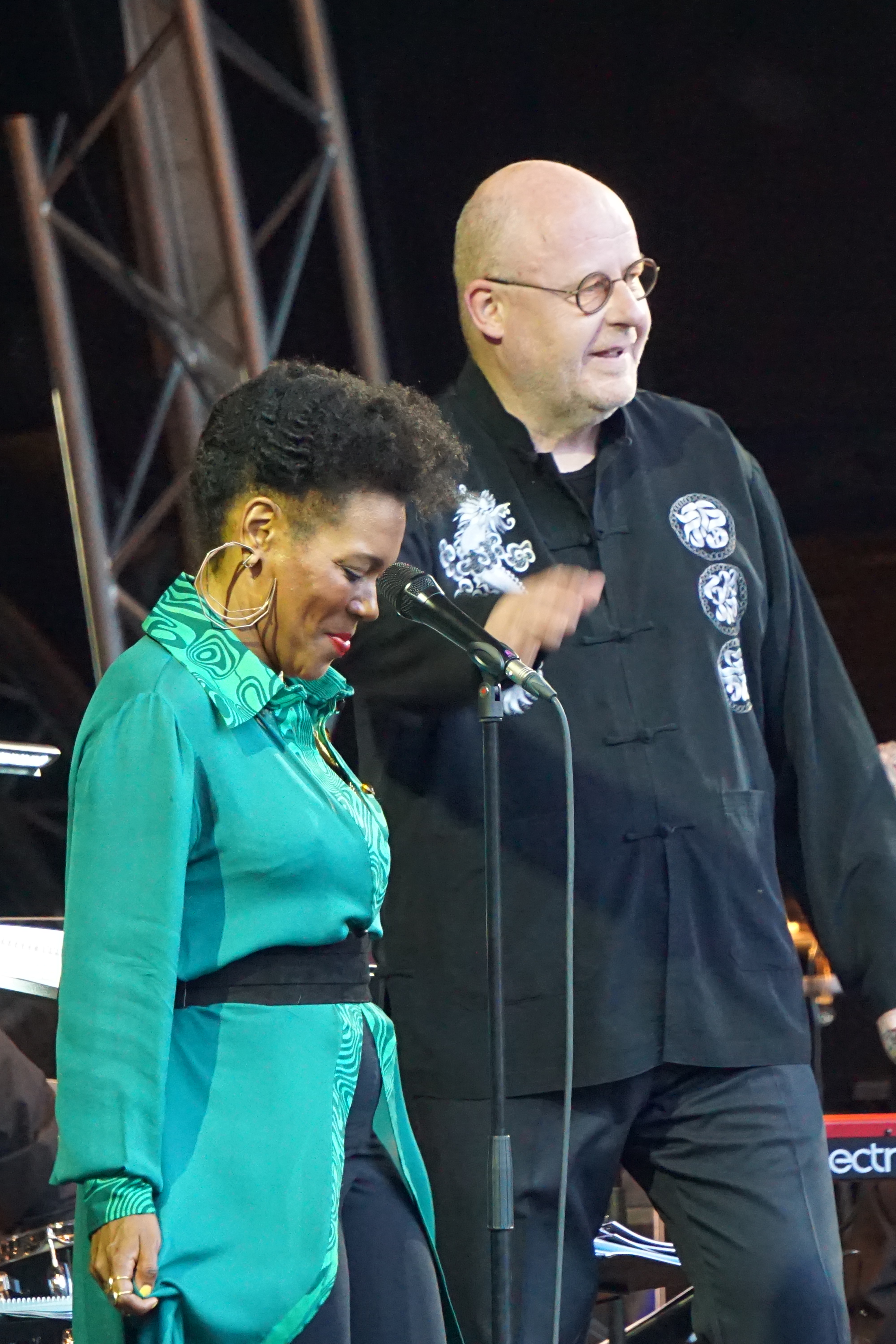 Fête de la musique, Luxembourg City. US soul and jazz singer China Moses at a concert directed and conducted by Luxembourg's Grammy-awarding winning musician Gast Waltzing.